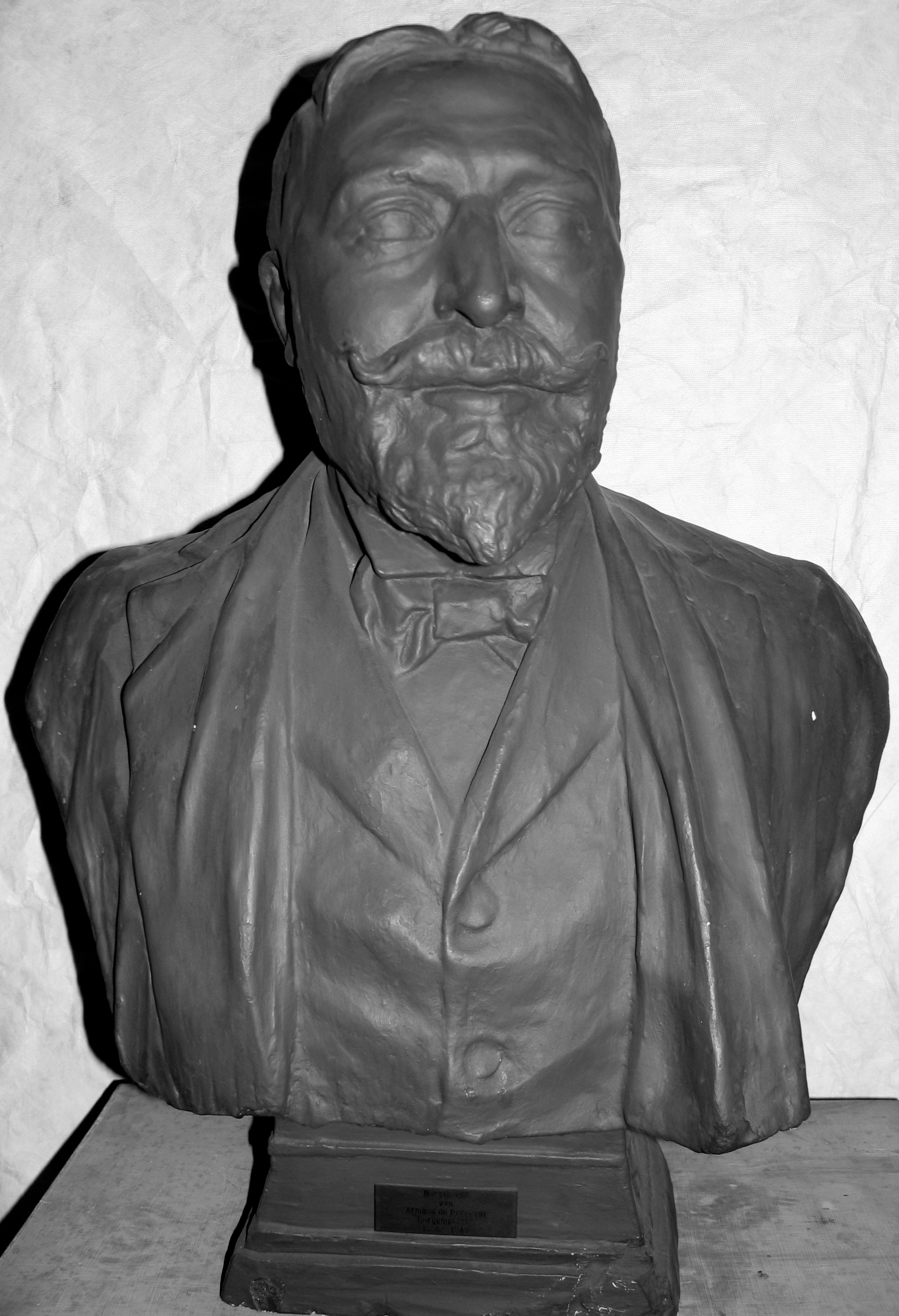 Jean Henri Emmanuel de Perceval (1786-1842), burgemeester van Mechelen (1836 tot 1842)